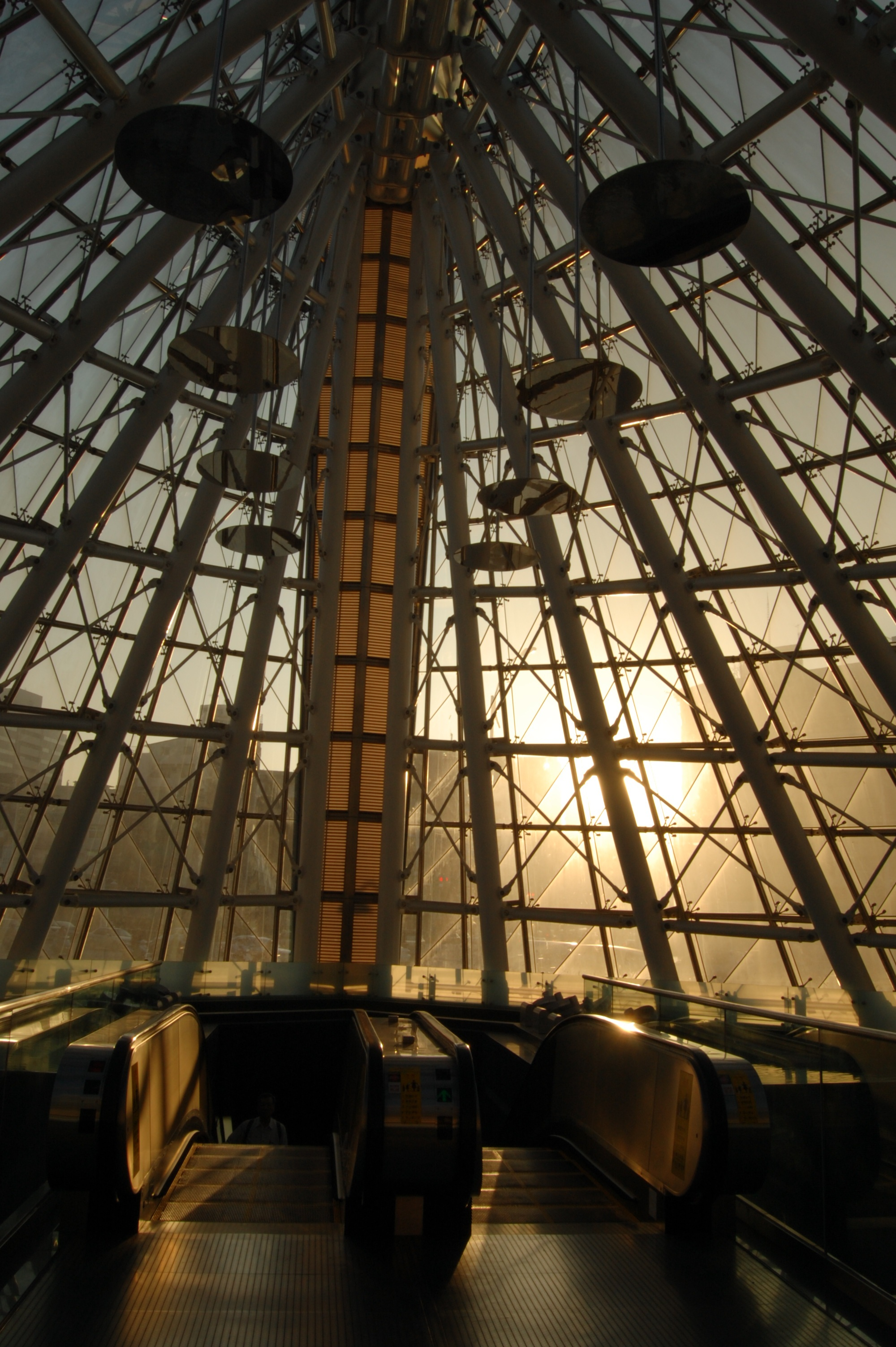 The entrance of KMRT Formosa Boulevard Station.